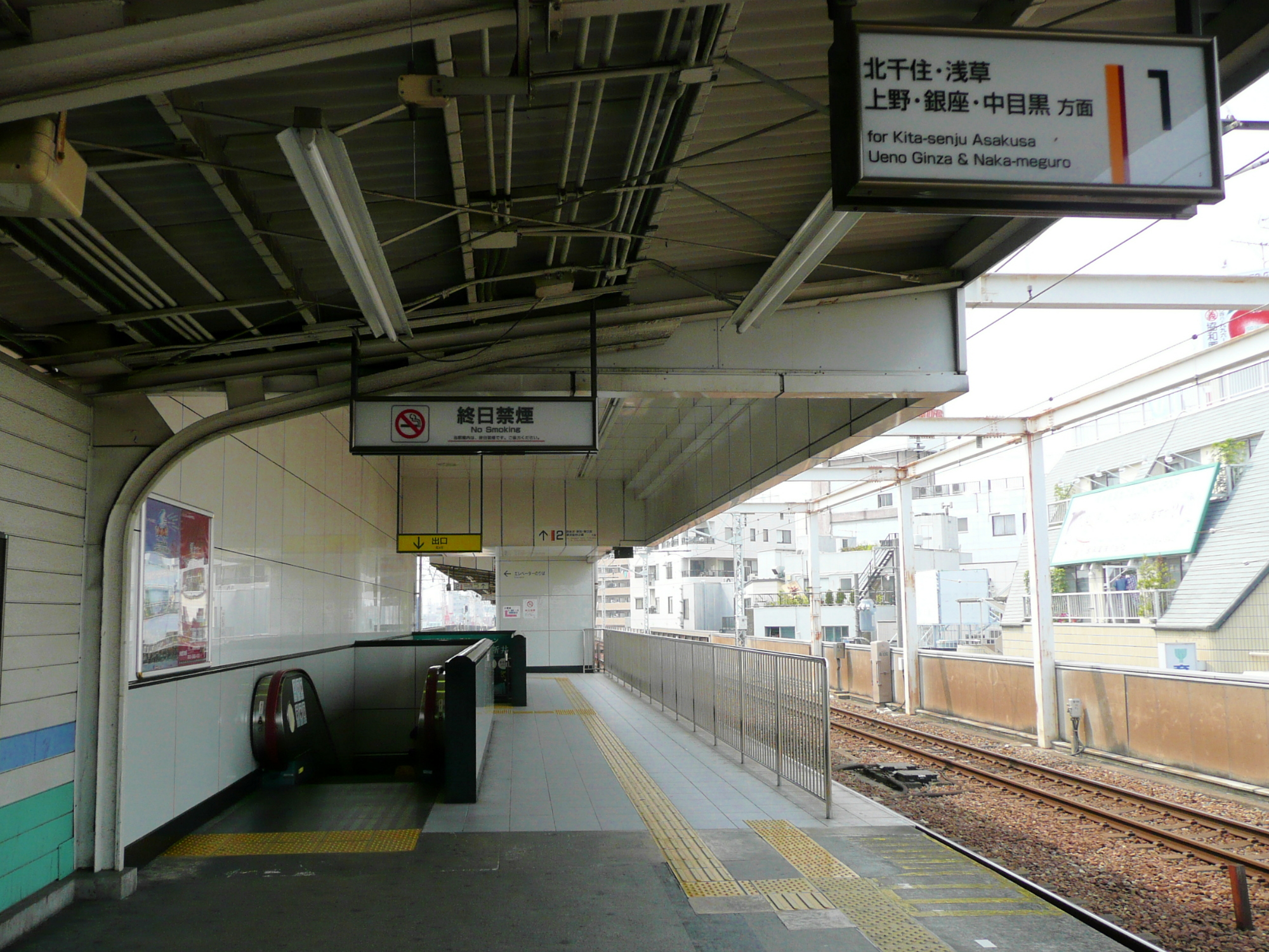 Umejima Station platform,Tobu Railway.